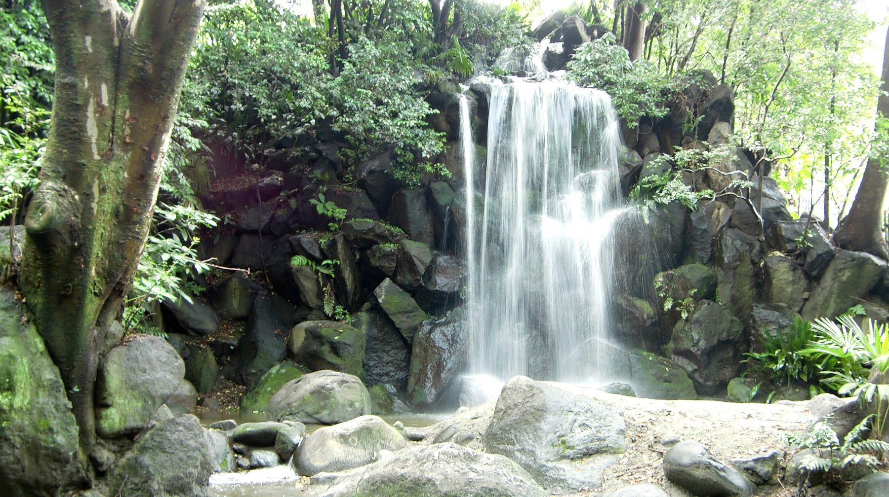 Nanushi-no-Taki Park in Kita-ku, Tokyo